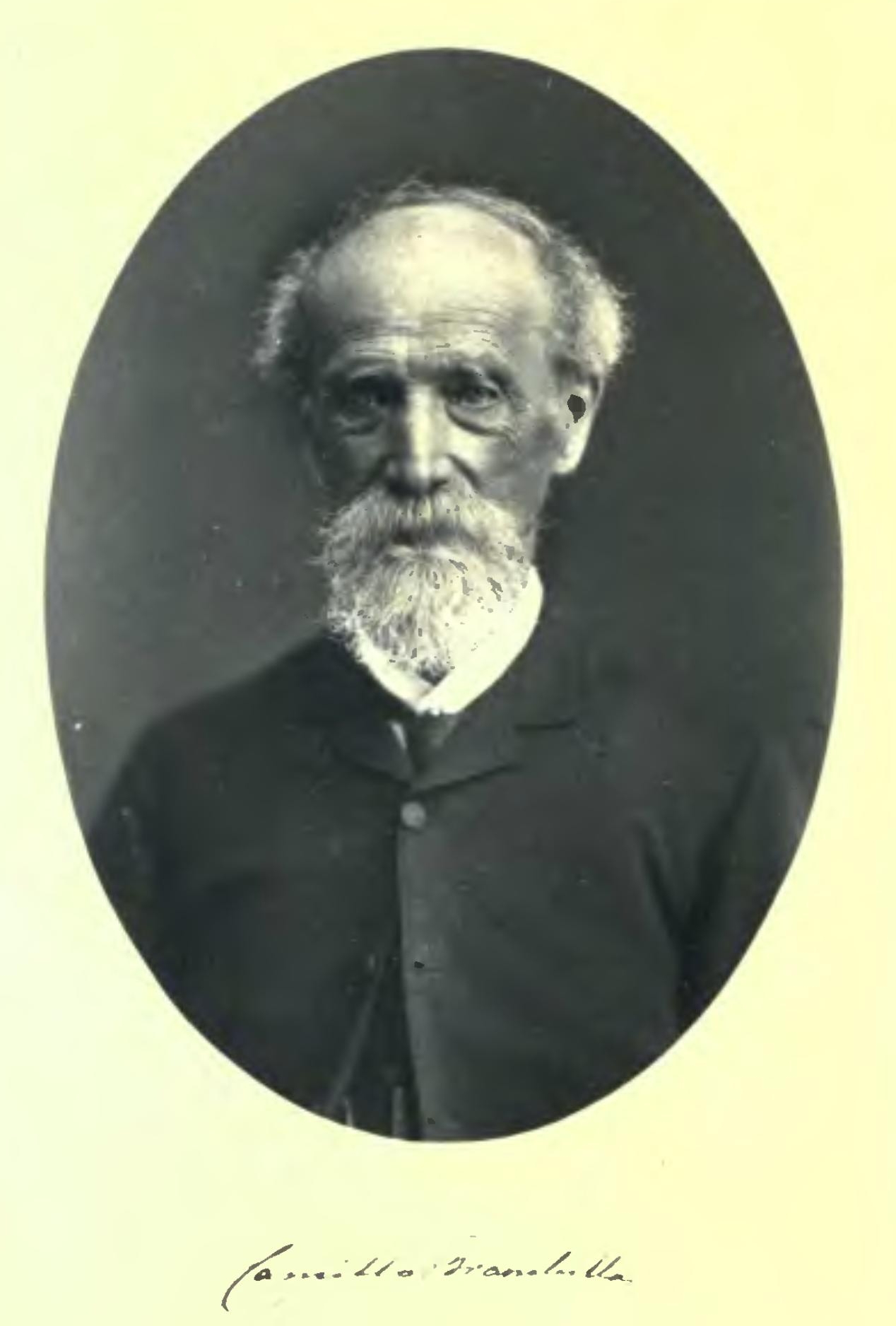 portrait of Camillo Brambilla